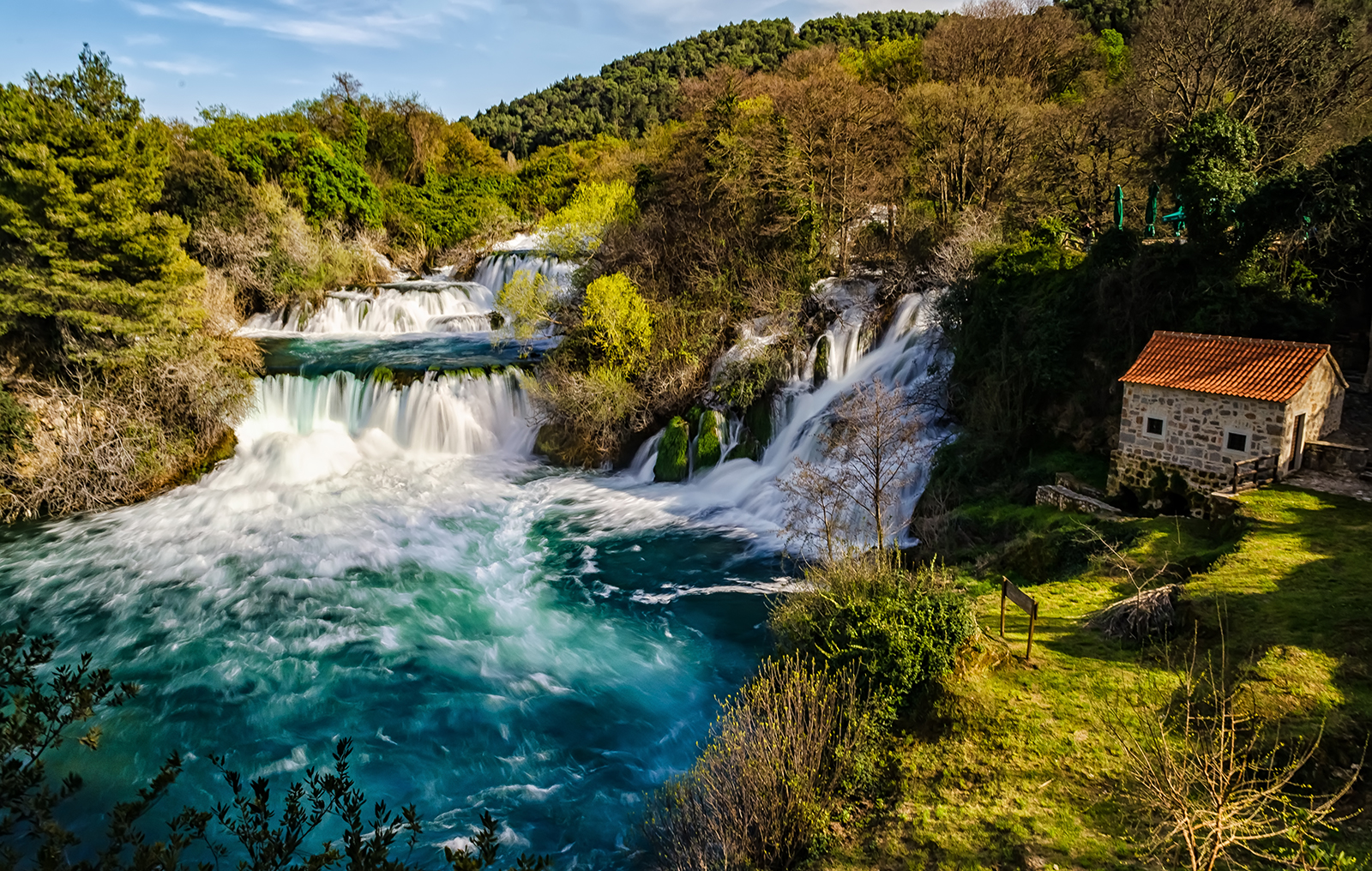 KRKA Waterfall in Croatia